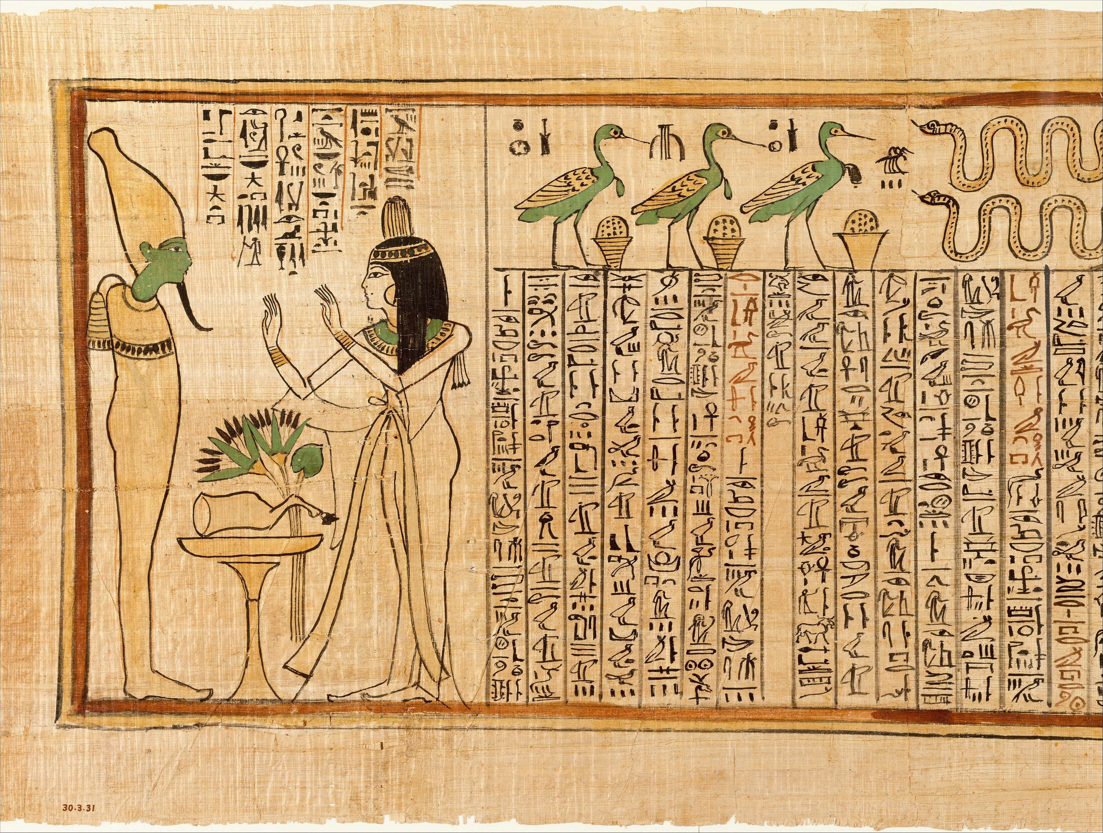 Papyrus, Nany, "Book of the Dead"